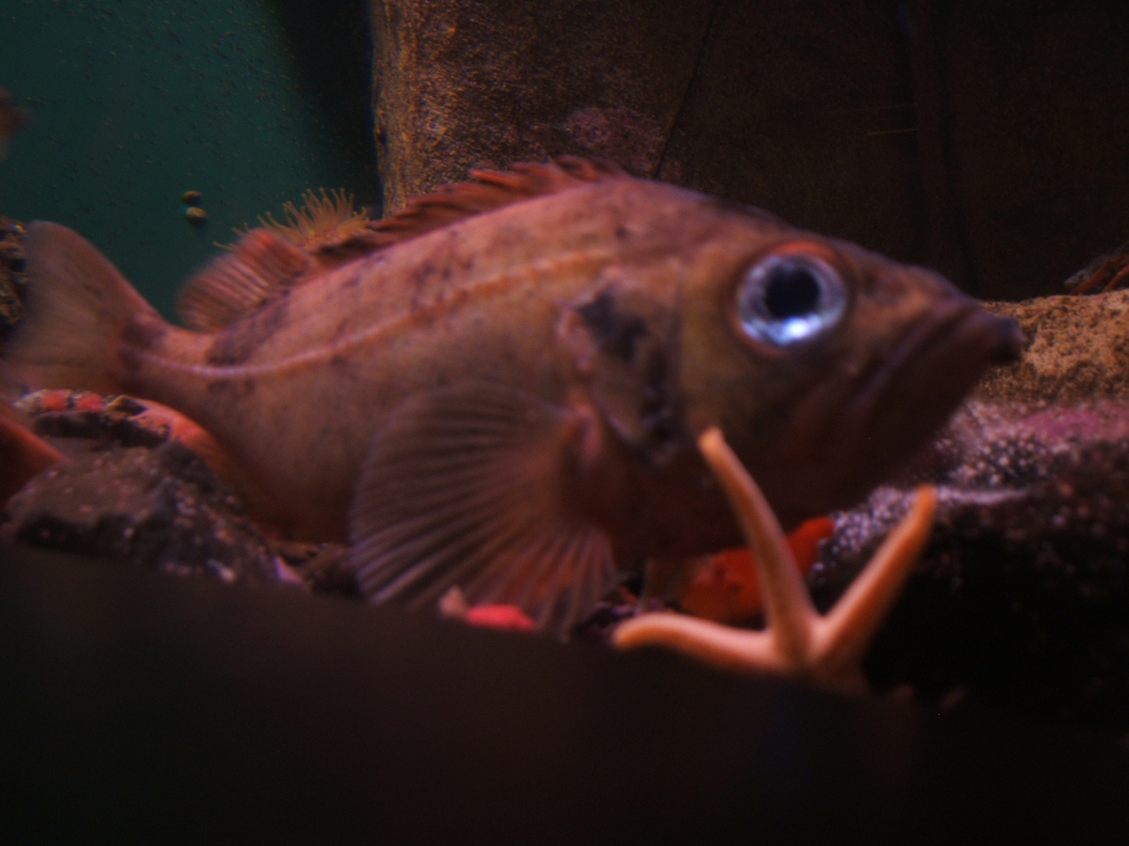 Rose fish, or redfish, etc. (Sebastes marinus). Taken at the New England Aquarium (Boston, MA, December 2006. Copyright © 2006 Steven G. Johnson and donated to Wikipedia under GFDL and CC-by-SA.